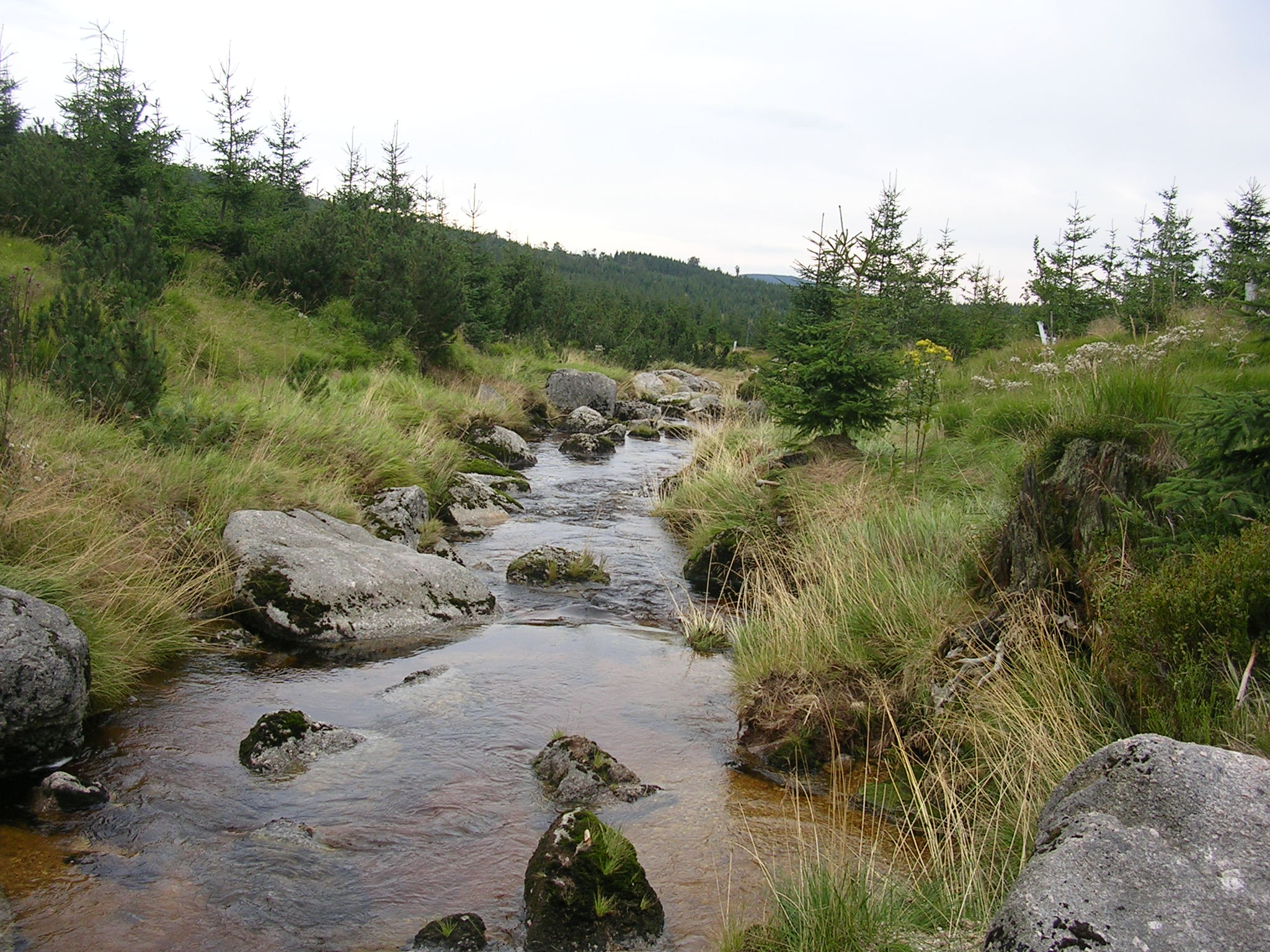 Bílá Desná River, Jizera Mountains. A borderline of municipalites Hejnice and Albrechtice v Jizerských horách.